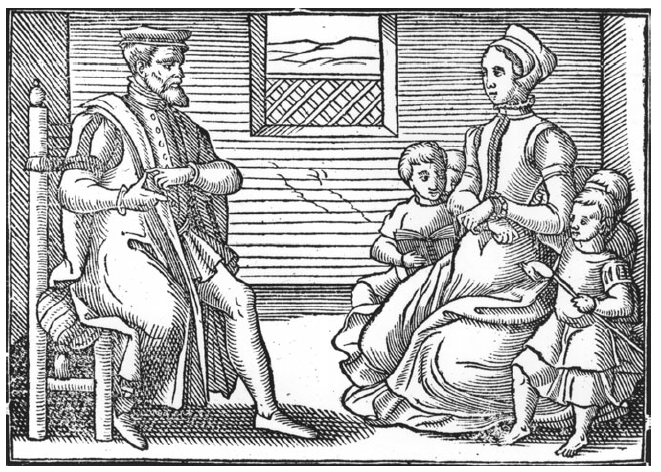 Illustration from the 1563 Whole Book of Psalms published by John Day